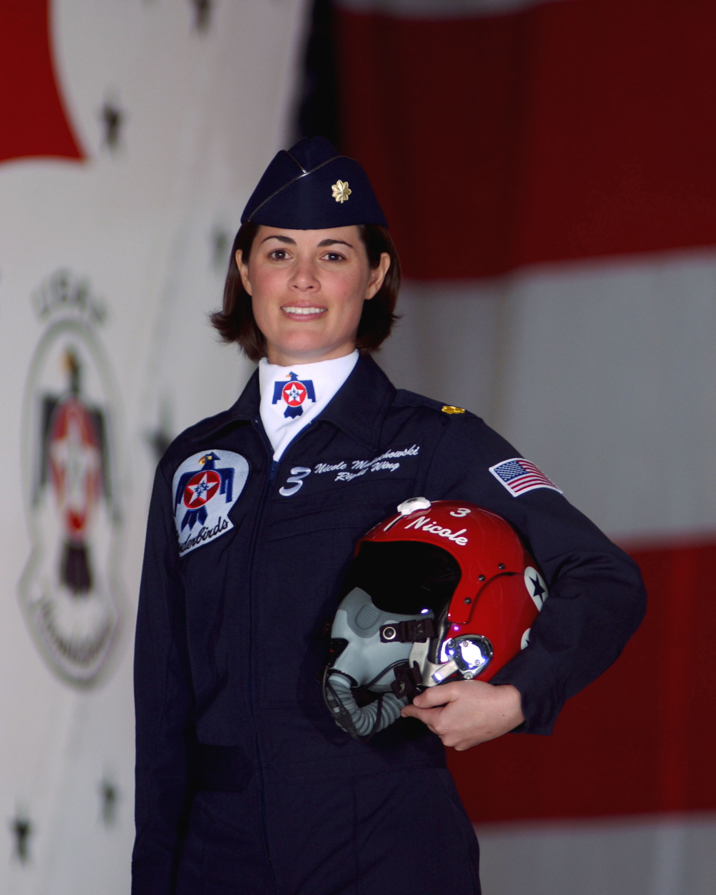 Maj. Nicole Malachowski, the first female pilot selected to fly as part of the USAF Air Demonstration Squadron.